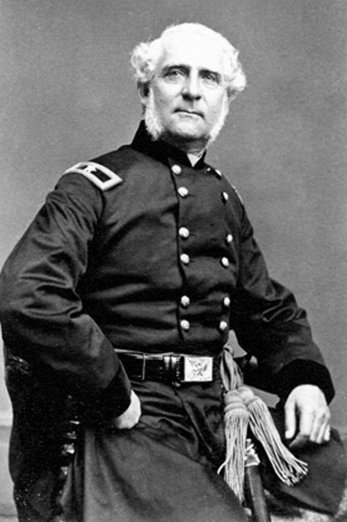 Photo of James Samuel Wadsworth (1807–1864)